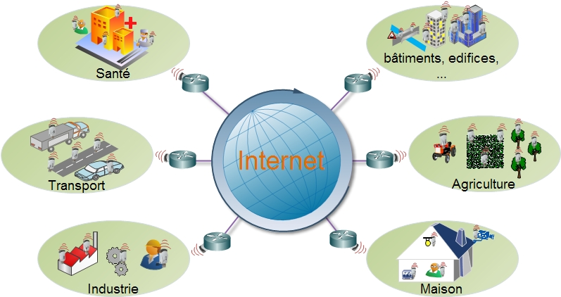 6LoWPAN uses cases